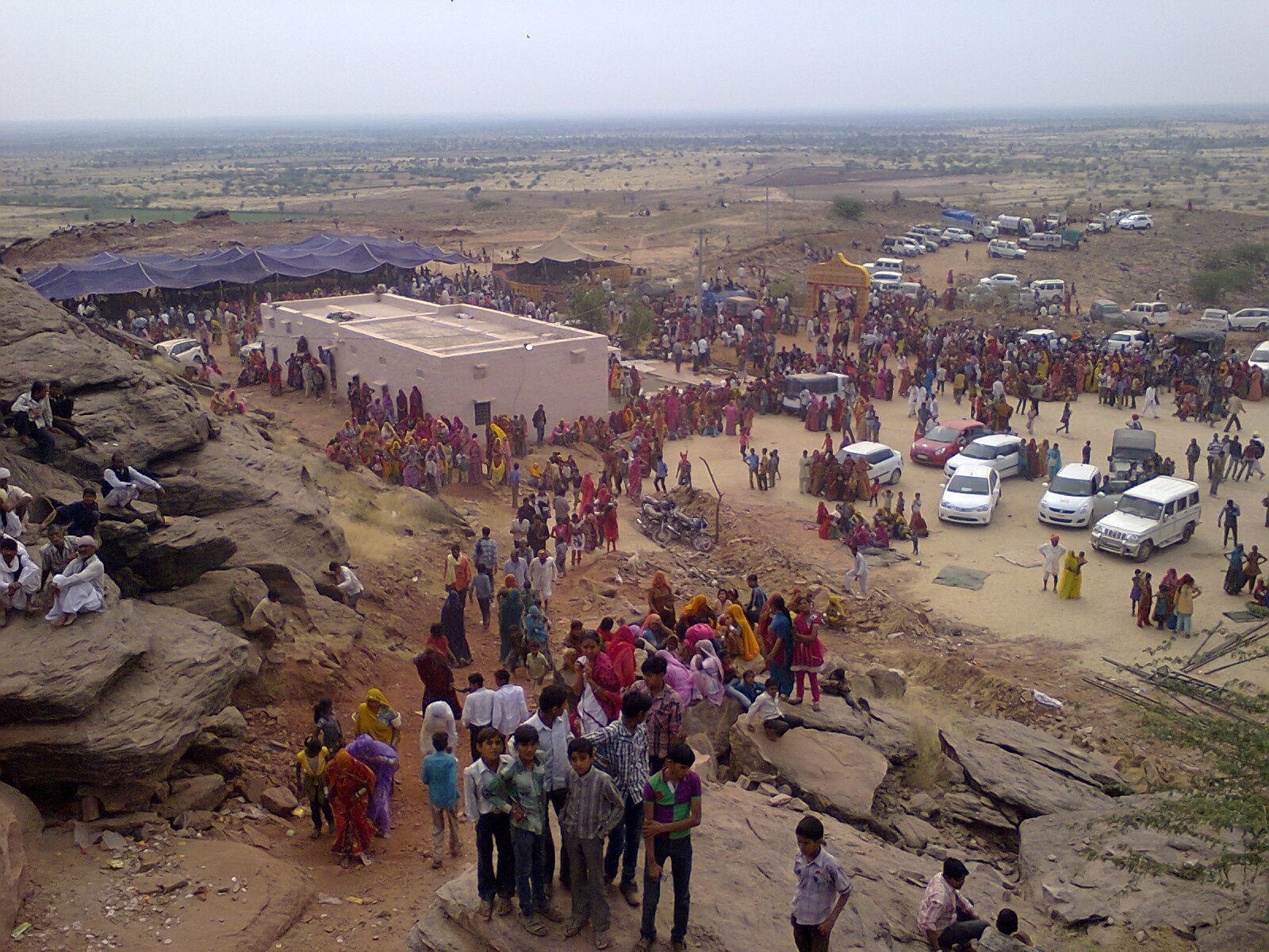 Inaugaration of Gunjiya Mata Mandir at Nathji Bhakar ,Kuri,bhopalgarh.